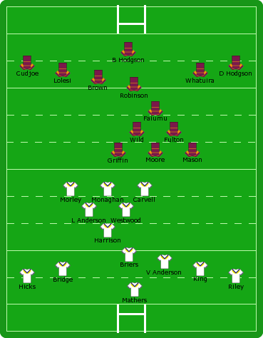 A diagram of a rugby league pitch, showing the starting line-ups for the 2009 Challenge Cup Final, at Wembley Stadium, London, on 29 August 2009.